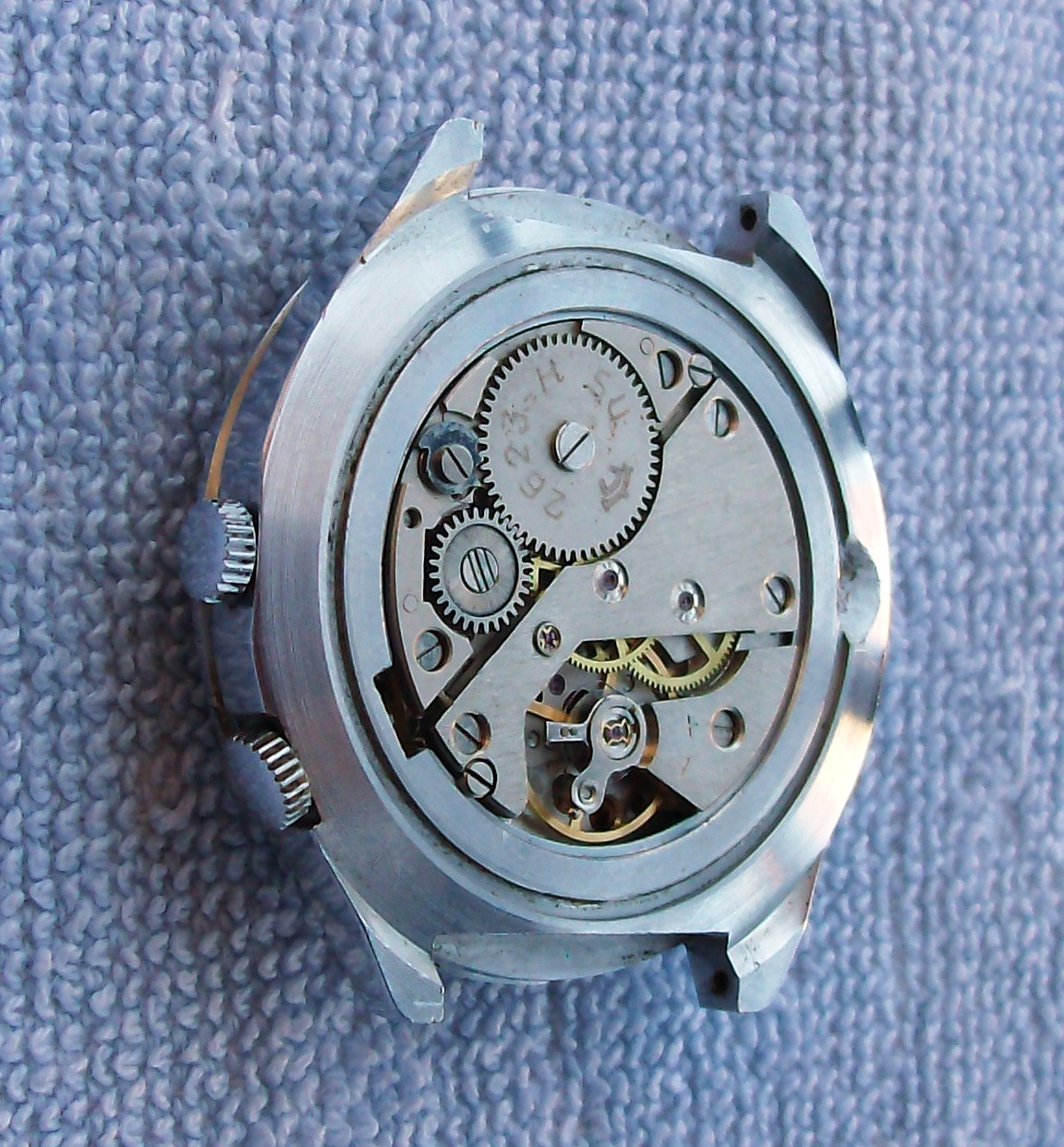 A Raketa 2623N movement